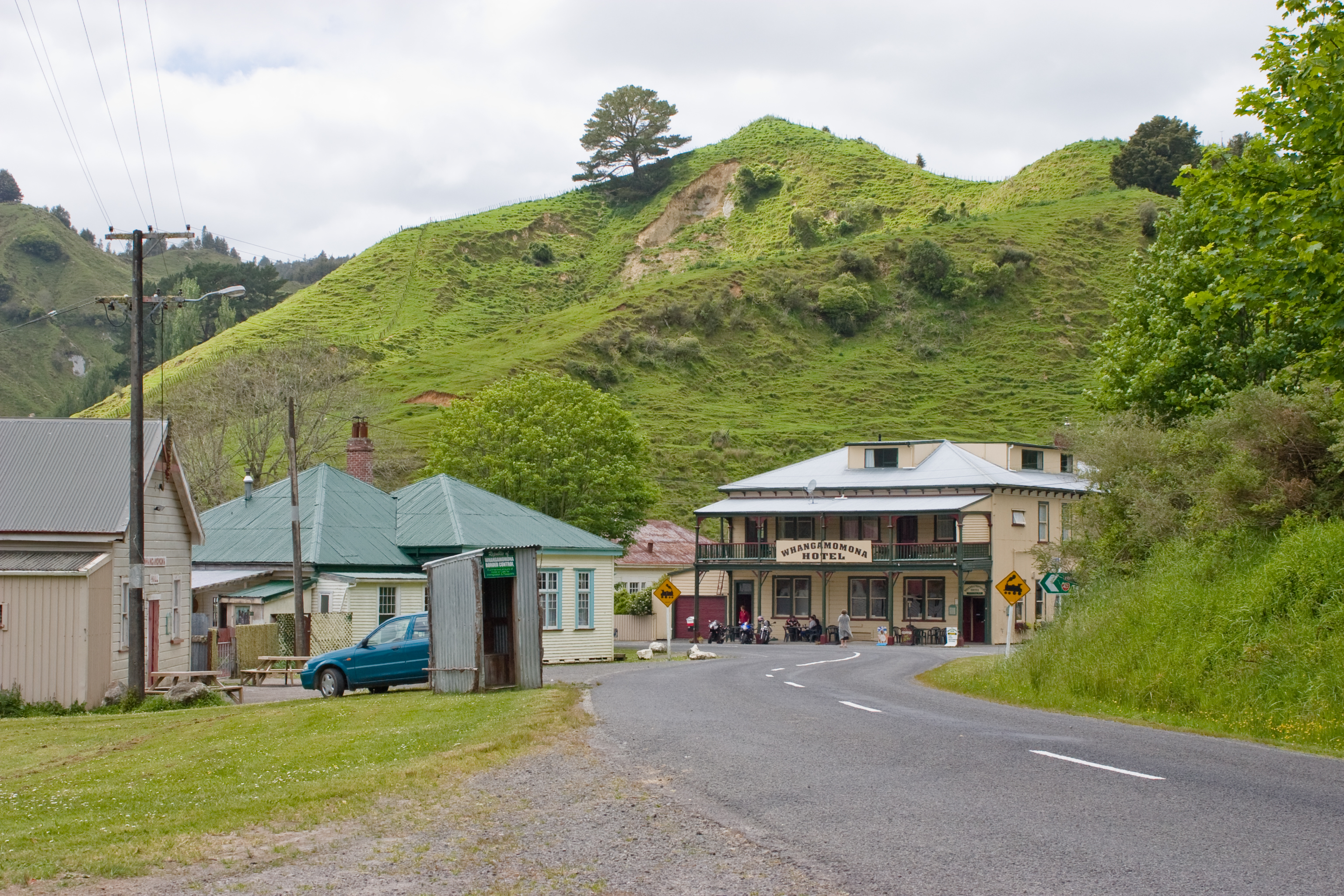 "Border Control" booth on the left side of the road. Whangamomona Hotel at road bend.